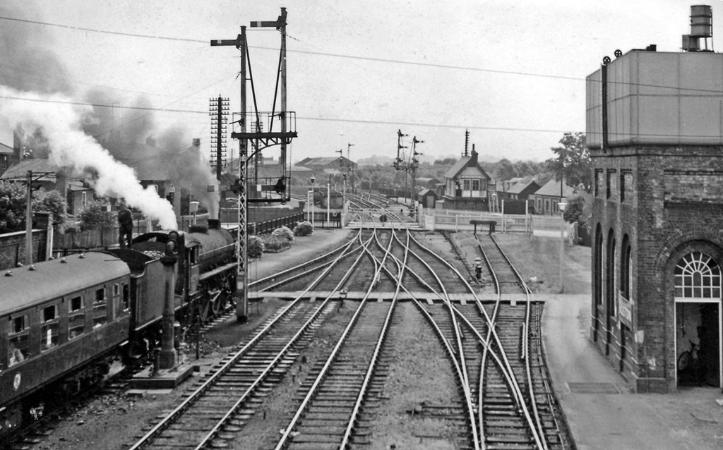 Southward from Boston Station. View southward, towards Sleaford, Spalding and Peterborough; ex-Great Northern Lincolnshire Loop Line. On the left is the Summer Saturday 12.48 Mablethorpe - Derby Friargate express, with B1 4-6-0 No. 61299; its fireman is standing on the tender as it is filled up with water. The train will turn right shortly to Sleaford, thence Grantham, Nottingham and Derby. Most of the trains here were already Diesel-hauled and most of the Loop was closed in 1970.